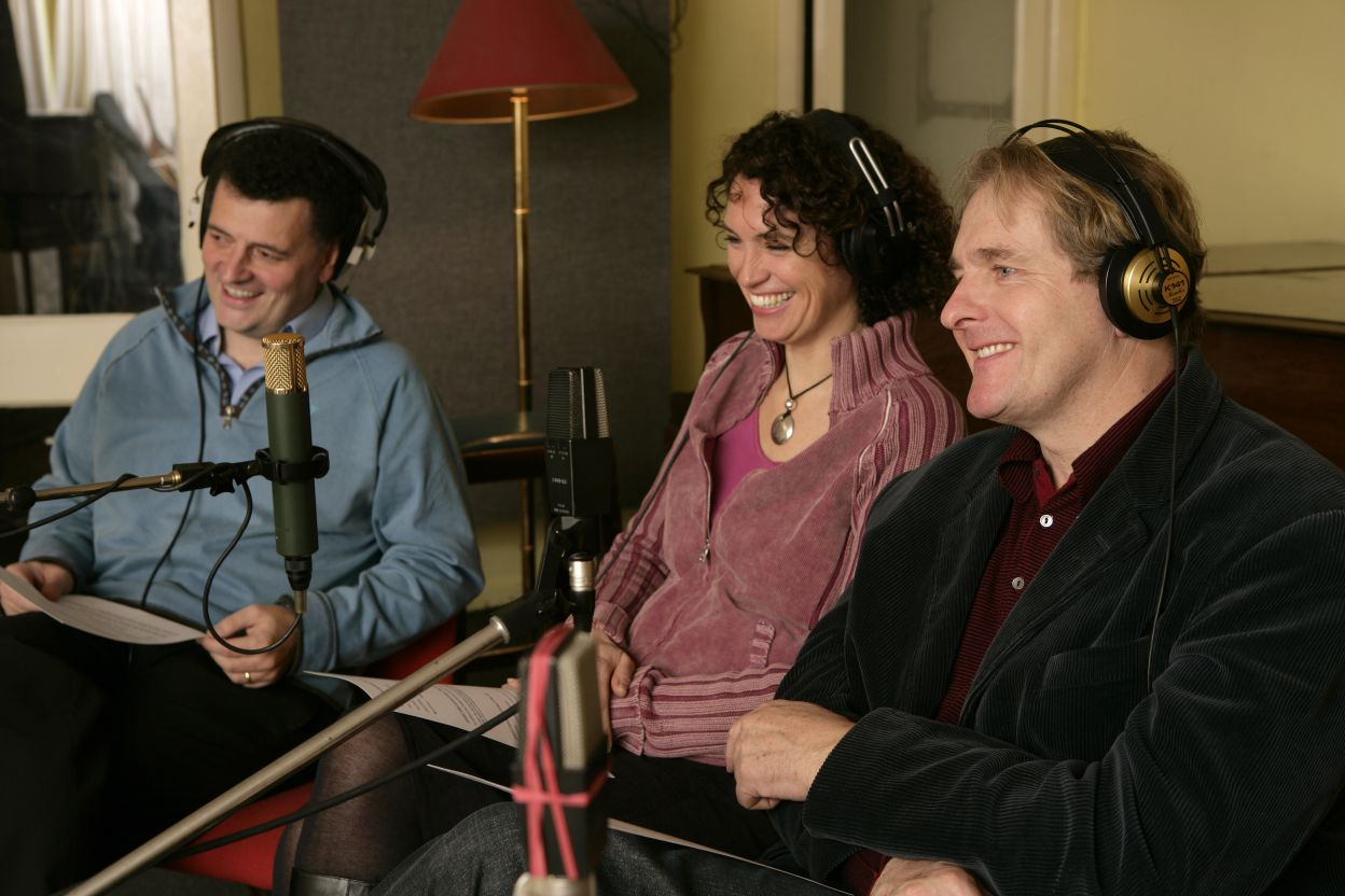 Steven Moffat, Fiona Gillies and Robert Bathurst record the DVD audio commentary for the first series of Joking Apart